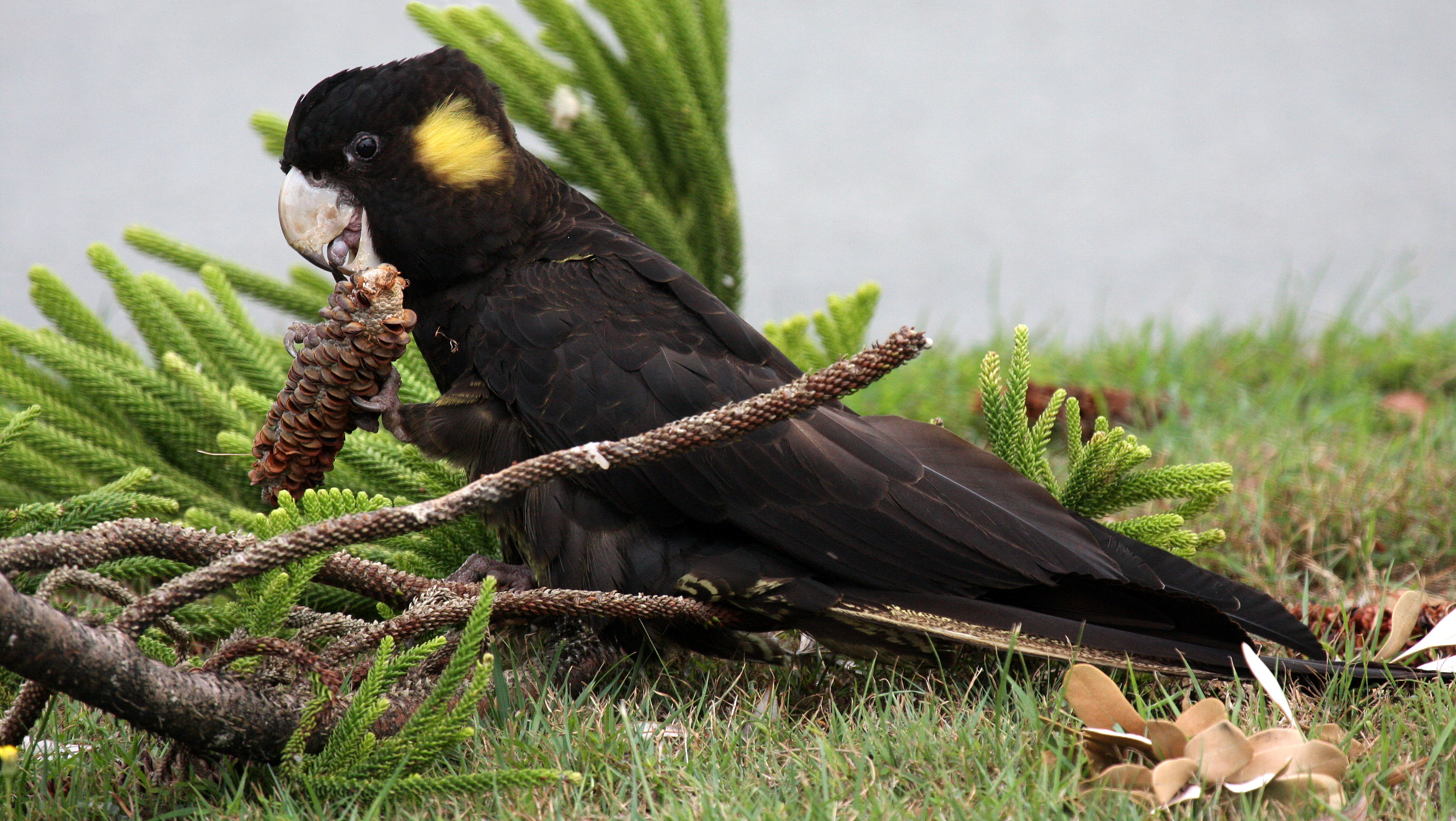 A female Yellow-tailed Black Cockatoo in Australia. It is eating Banksia integrifolia..